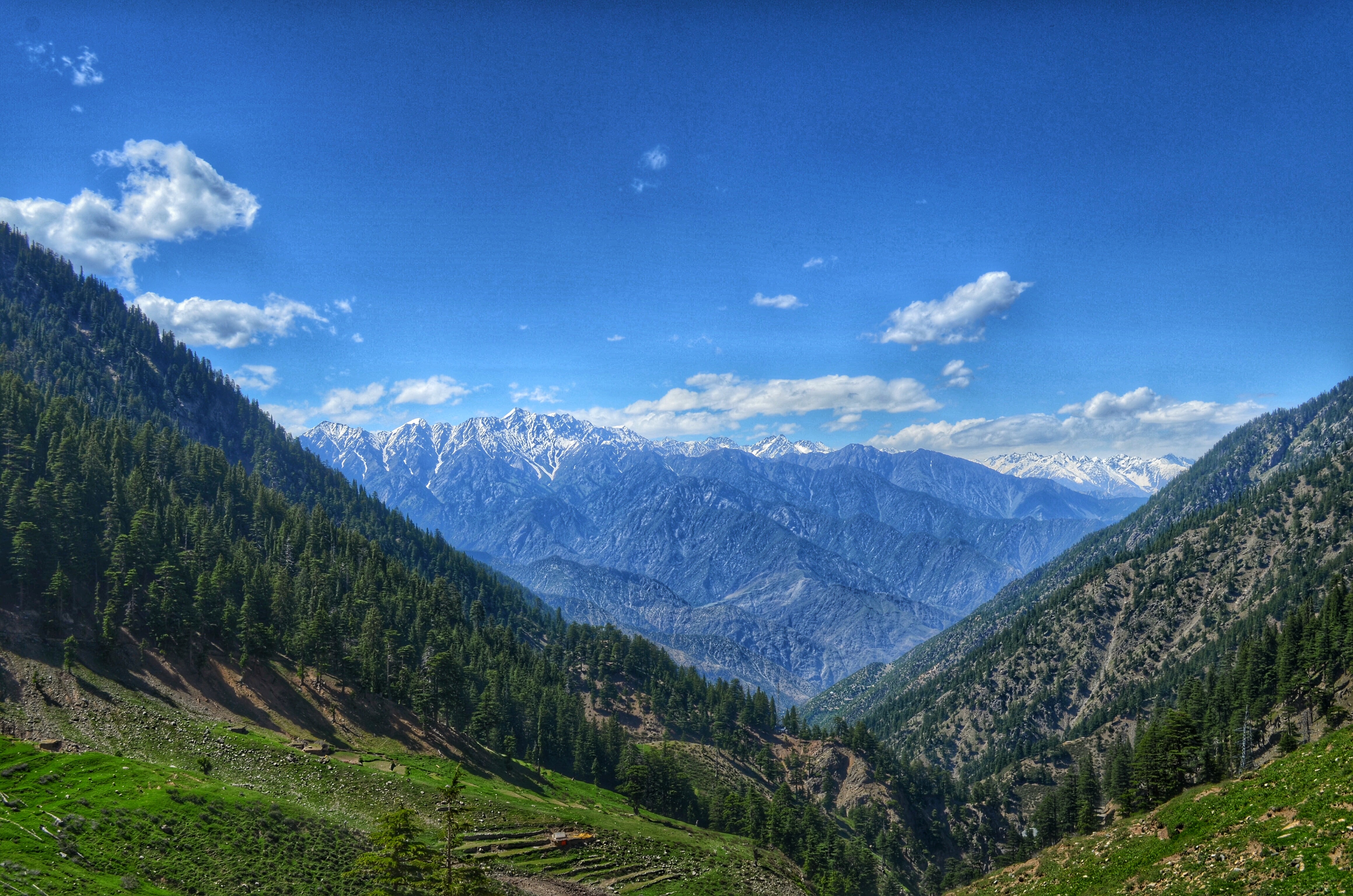 The mountains of the Chitral Valley